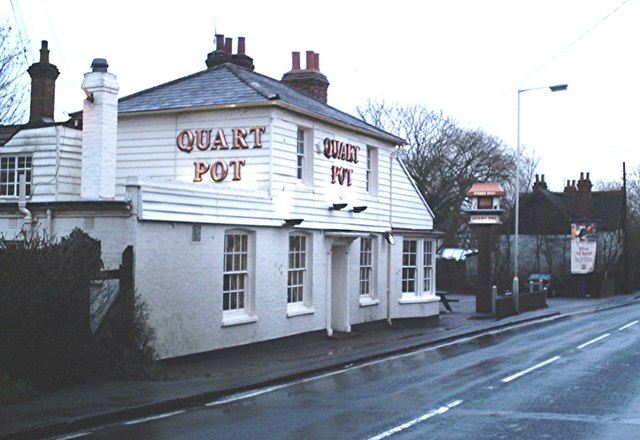 The Quart Pot, Runwell Pub on the Runwell Road.